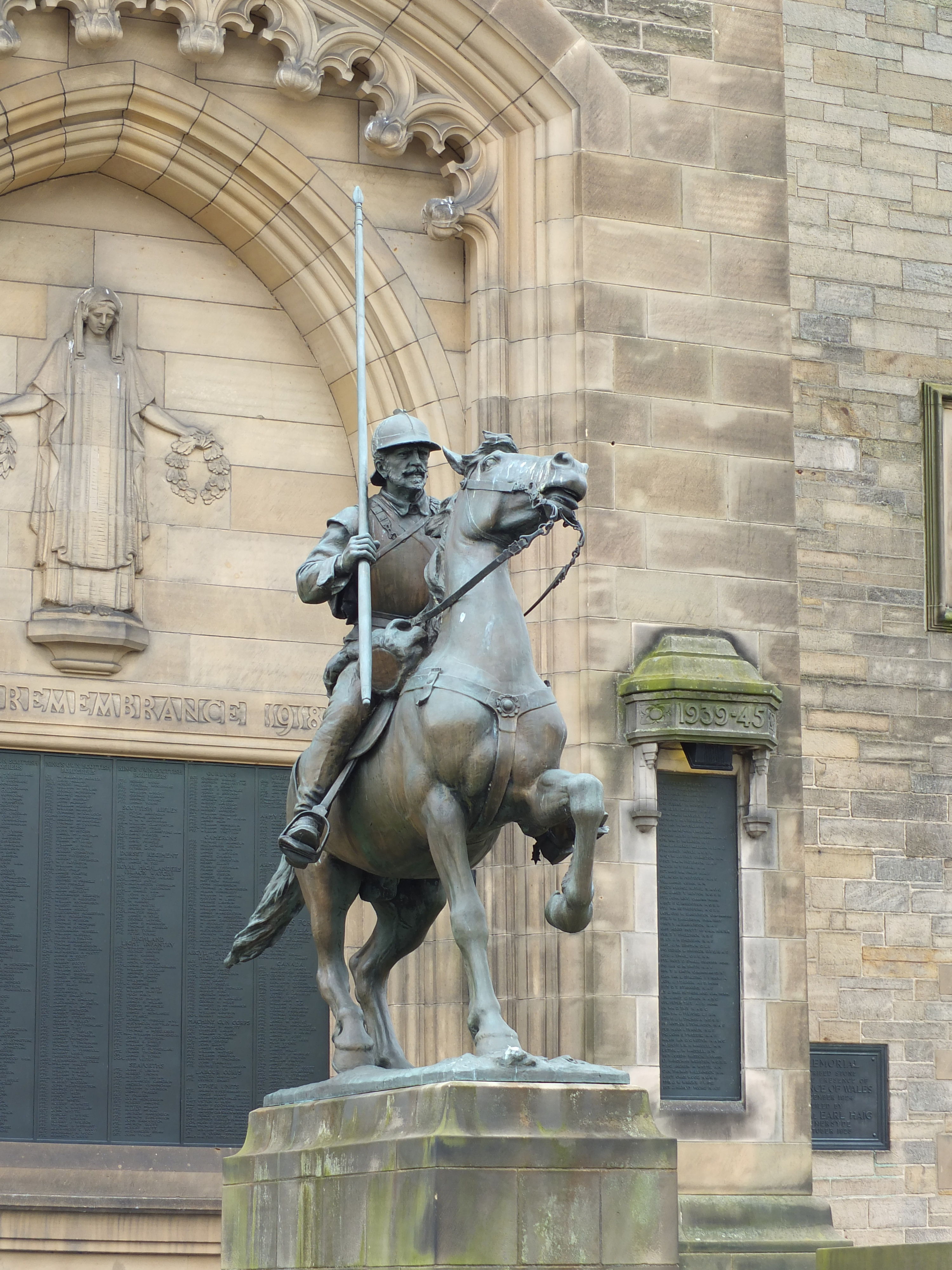 The statue in front of the War Memorial in Galashiels, known as the Reiver monument was sculpted by Thomas J. Clapperton (1879 - 1962). Clapperton was born in Galashiels, he studied Galashiels Mechanics Institute where he won a scholarship to study at Glasgow School of Art. In 1906 he set up a studio in London.